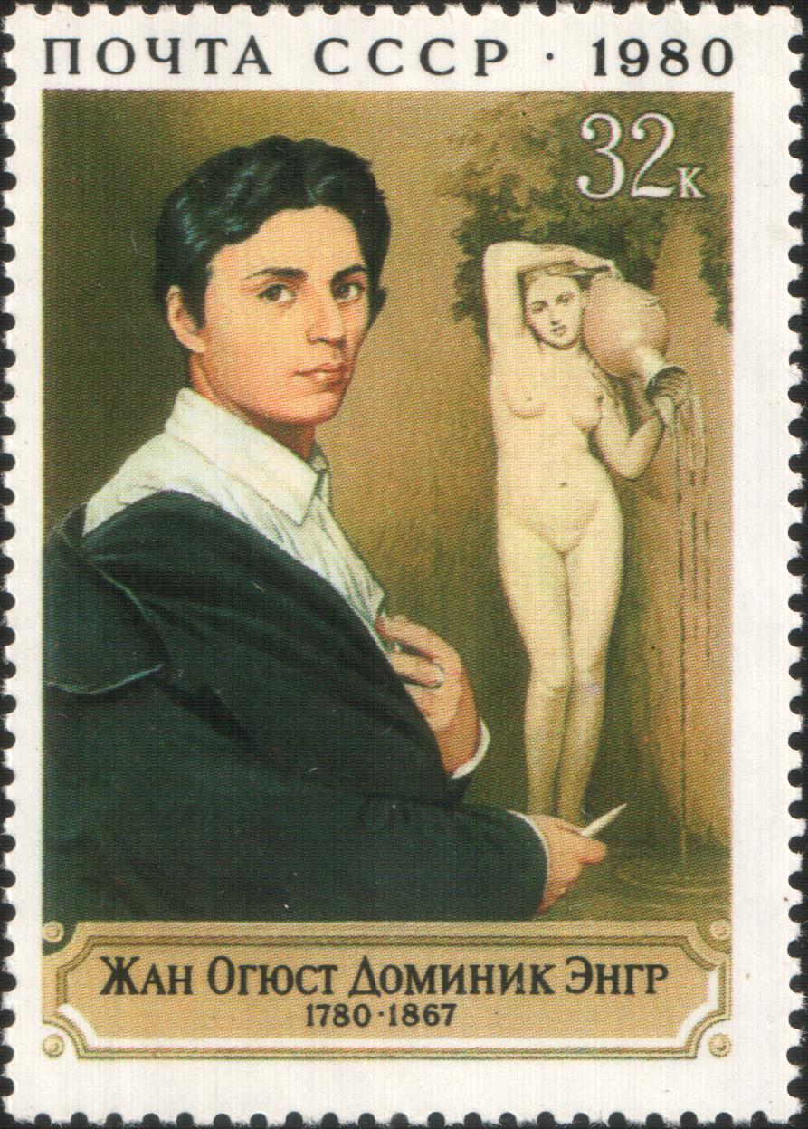 USSR stamp